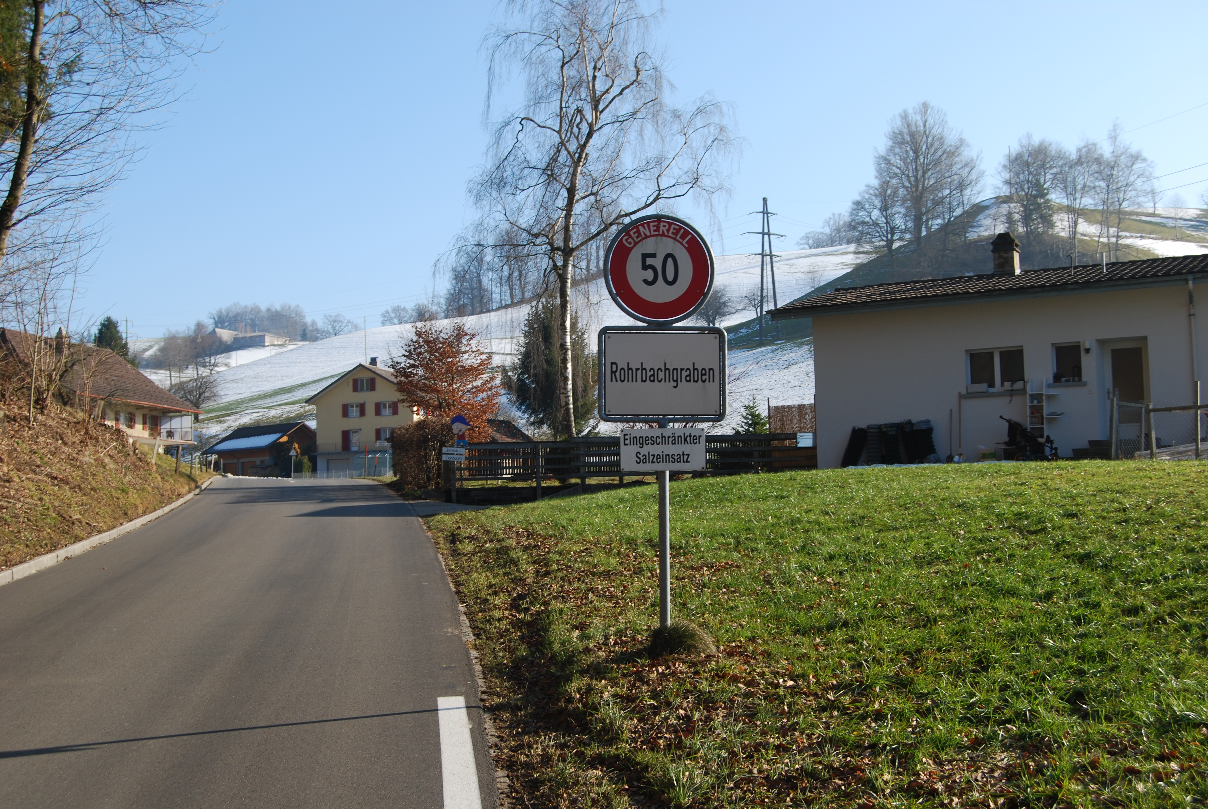 Rohrbachgraben, canton of Bern, SwitzerlandEsperanto: Rohrbachgraben, Kantono Berno, Svislando